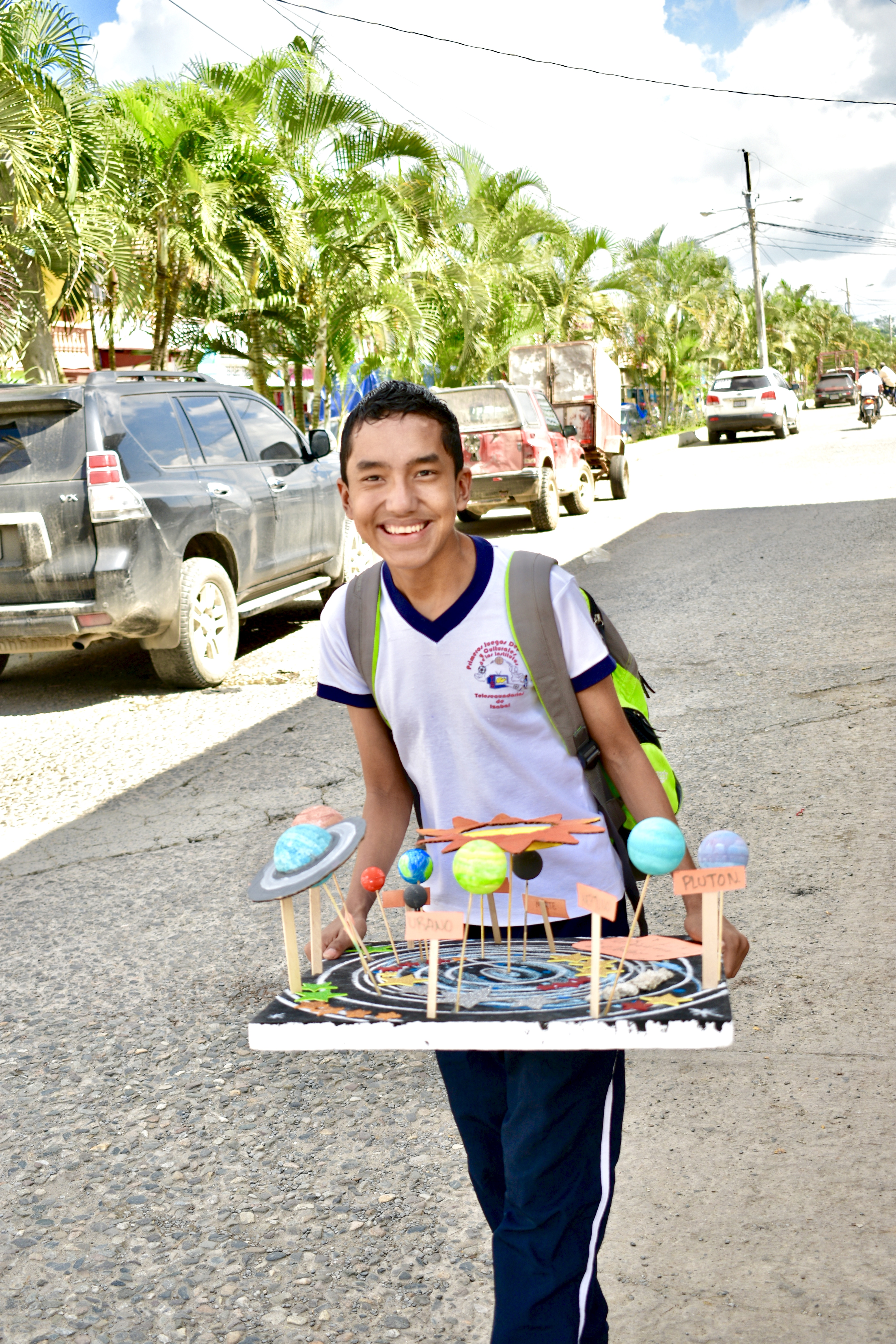 I captured this image while traveling in Puerto Barrios, Guatemala. A small port town with little tourist interaction. Most of the locals were surprised and unsure about us being there. But after a little conversation they became the sweetest people. This photo is of a boy taking his science project of the sun and surrounding planets to his school. I love this photo due to the boys expressions and how unique it was to capture this.